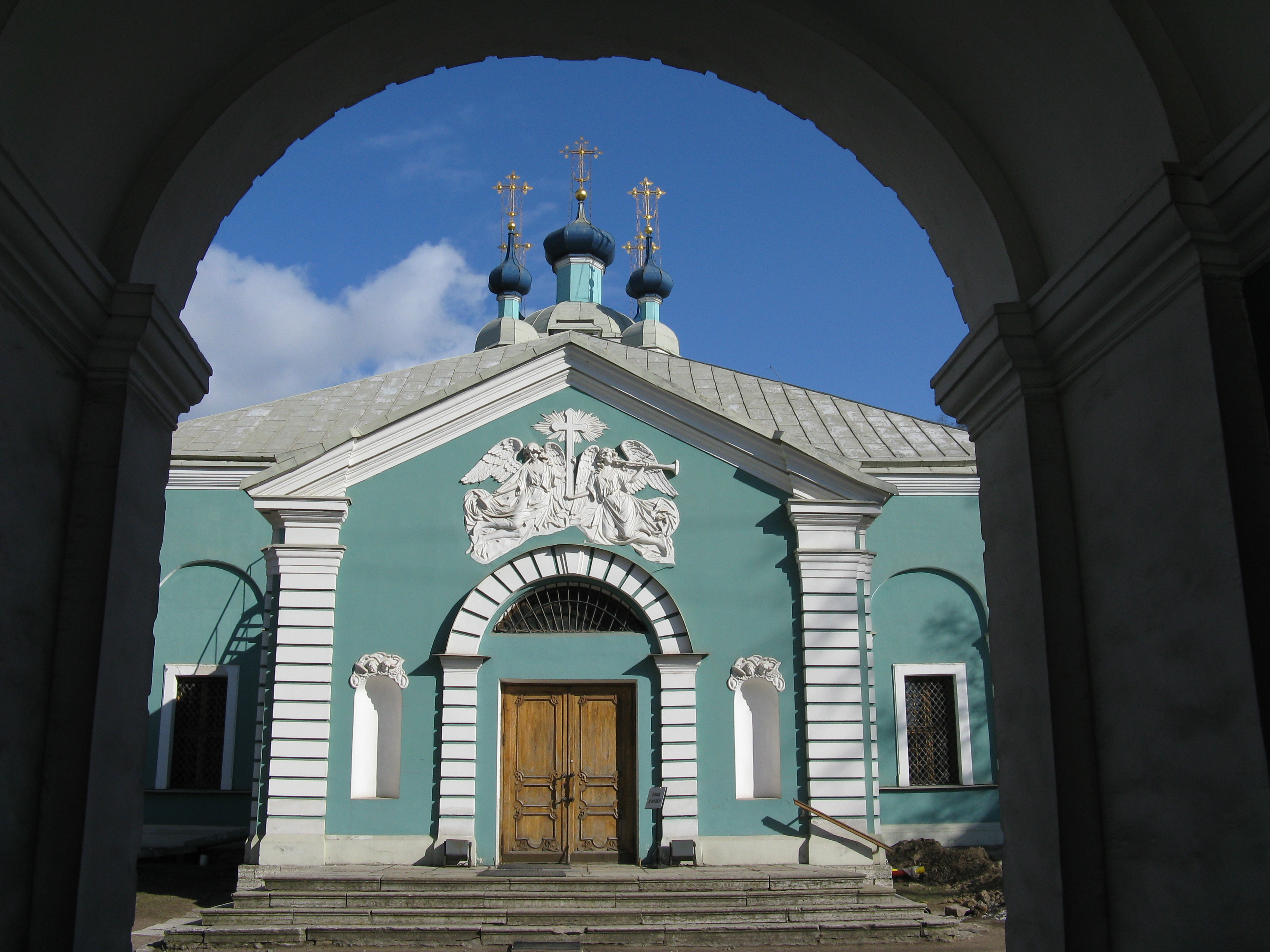 Chapel of Sampsonievsky Cathedral (St.-Petersburg, Russia)